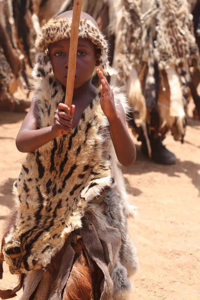 This is an image with the theme "Africa on the Move or Transport" from: Zambia